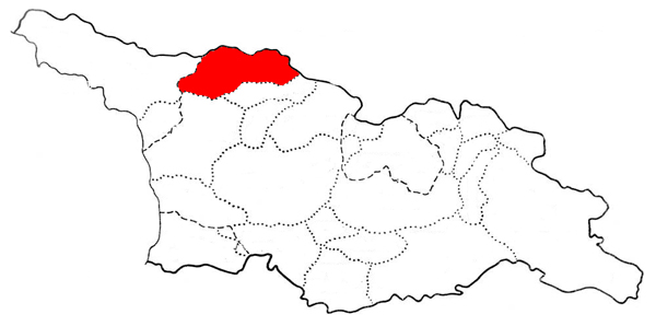 Location of ZemoSvaneti district in Georgia